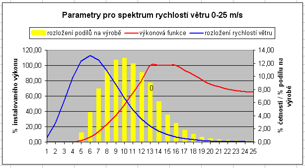 Chart describing the basic parameters of wind power for wind speeds from 0-25 m/s. Shown is the generalized power function of wind machines, taking into account the coefficient of efficiency depending on wind velocity (red graph, left axis), and the density distribution of wind speeds in the Czech Republic (blue graph, right axis) and the share of energy produced for each wind speed (yellow graph, right axis).